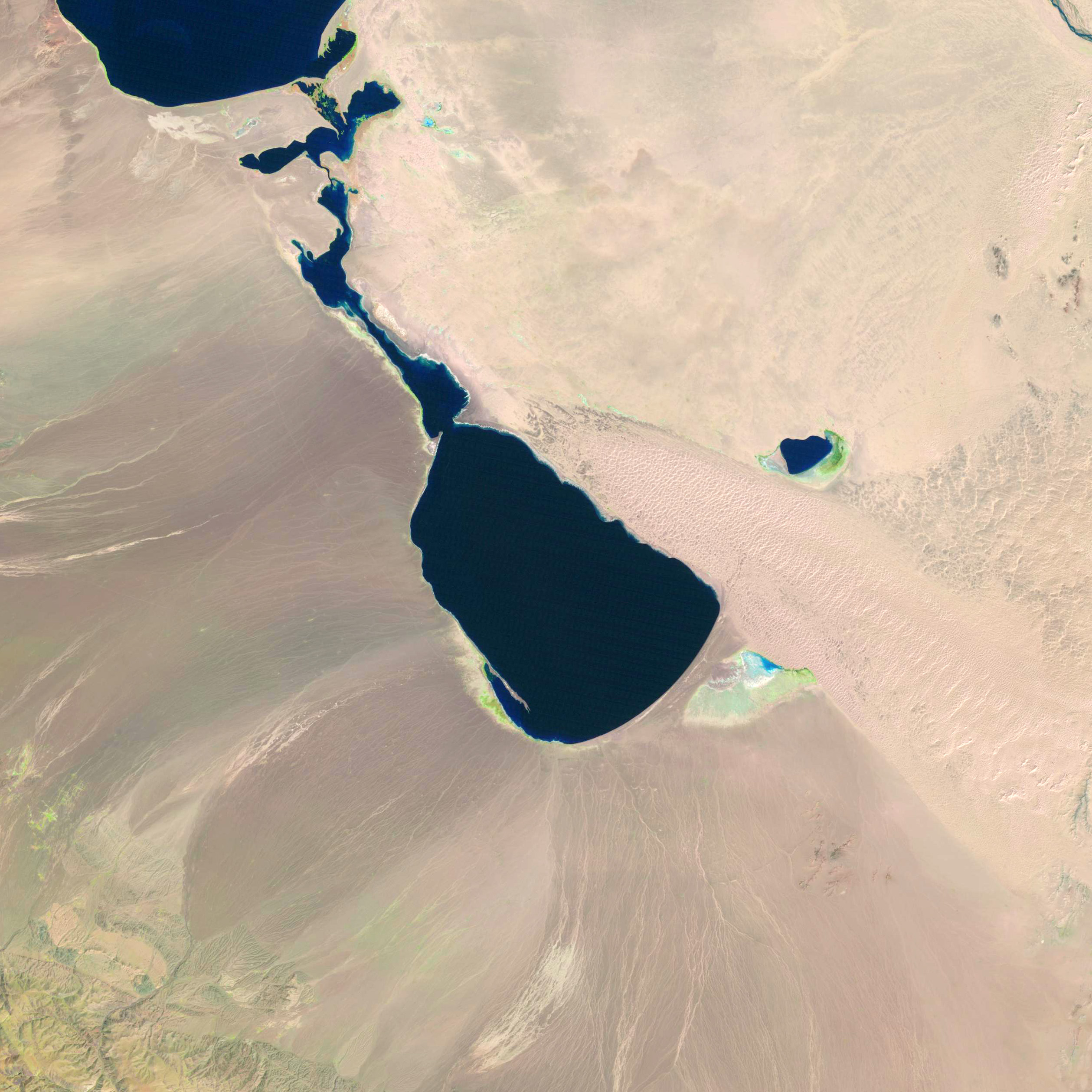 Dörgön lake satellite view from Landsat. Khar Lake section in visible in the north